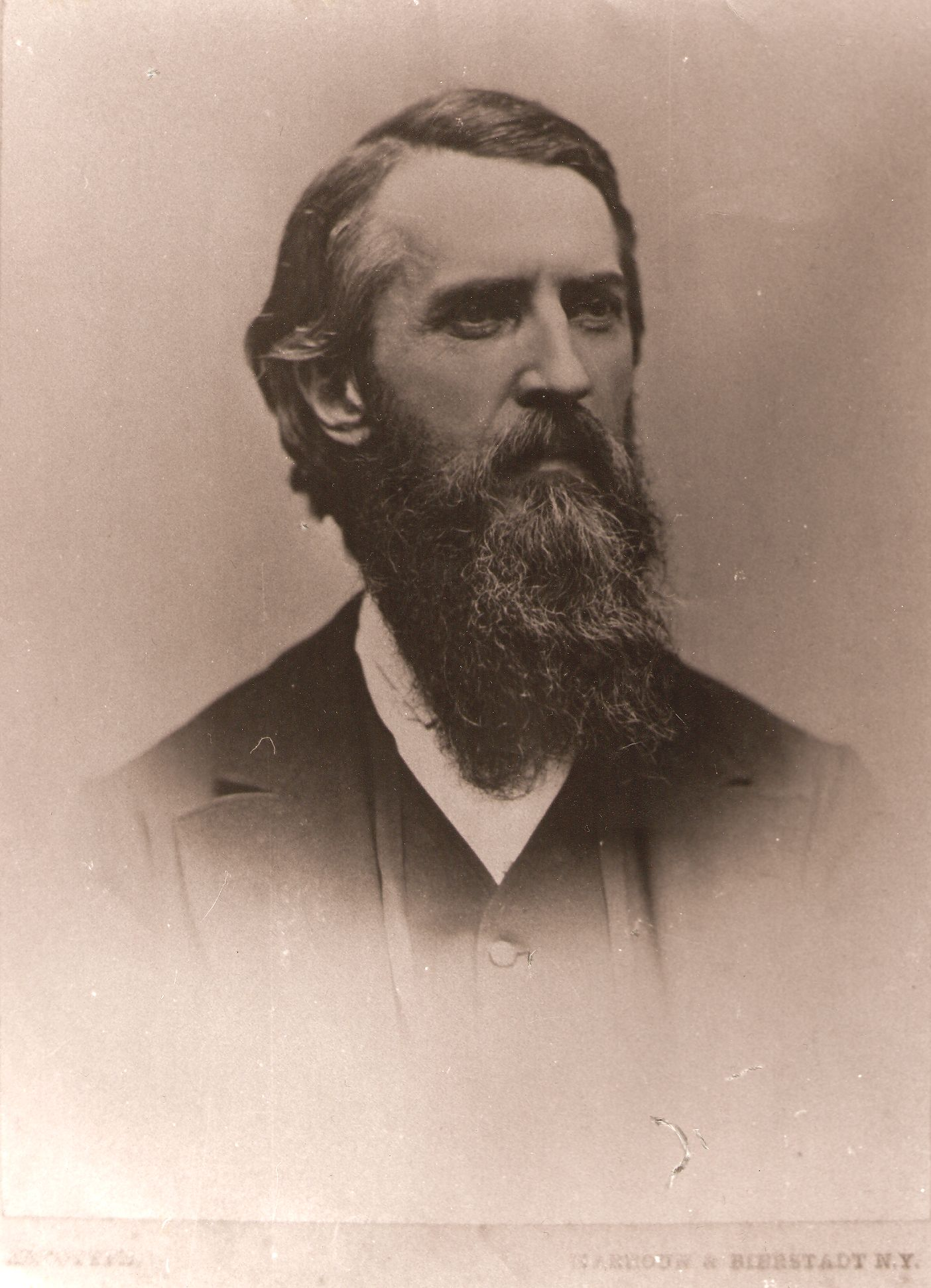 Potrait of Henry Harris Jessup, American missionary and founder of the American University of Beirut.